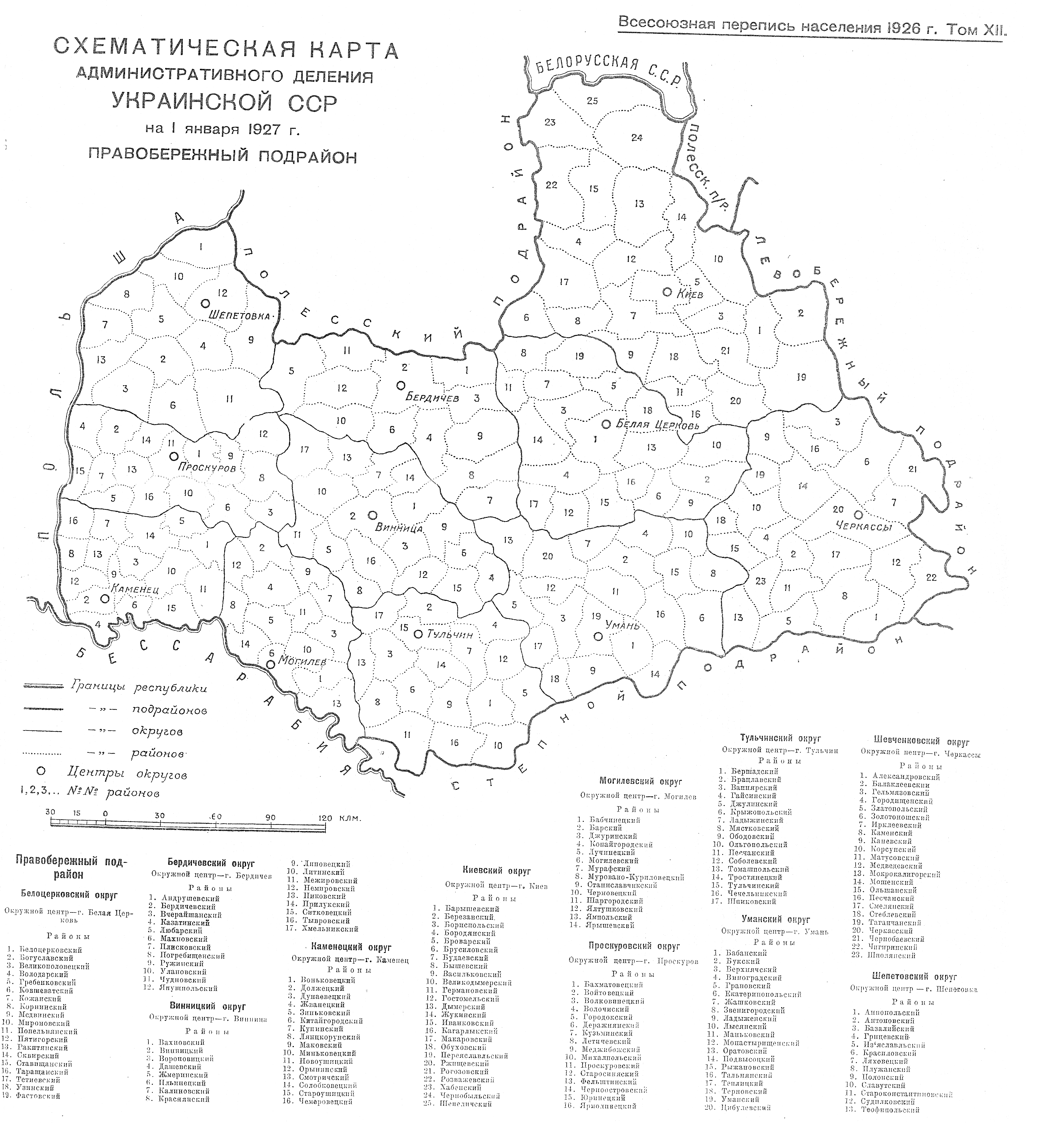 Right-bank region of Ukrainian SSR in 1926